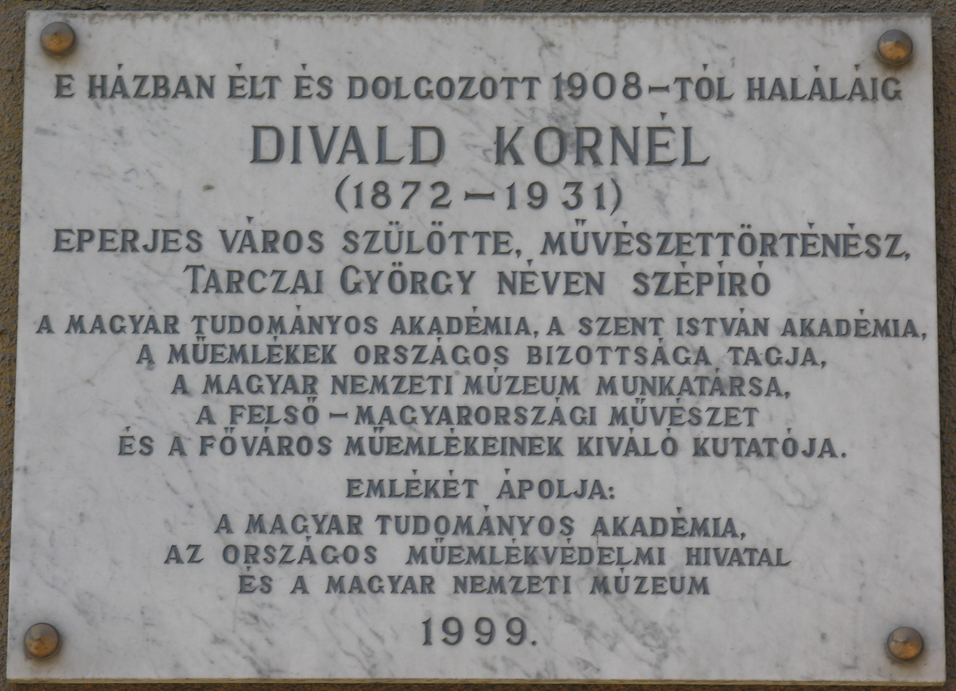 Commemorative plaque of Kornél Divald in Budapest District XI, Budafoki Street No 5-7